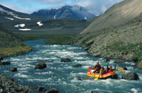 Rafting through The Gates of Aniakchak, Aniakchak National Monument & Preserve (U.S. National Park Service). Congress named the Aniakchak a national wild river in 1980. Its spectacular resources make rafting the Aniakchak a most rewarding experience. You can float from inside a volcano to the ocean, past spectacles of wildlife and geology. From Surprise Lake, the river flows a peaceful mile to The Gates. The river moves swiftly through this narrow gorge in the caldera wall, and large rocks demand precise maneuvering. A gradient of 75 feet per mile makes this section challenging. After a more gentle 10 miles comes the confluence with Hidden Creek, and the river is again filled with car-sized boulders, abrupt bends, and a narrow bed requiring extreme caution. After 5 more miles, the river slows to meander toward the Pacific Ocean and the seals, sea otters, bald eagles, and sea birds of Aniakchak Bay (NPS).